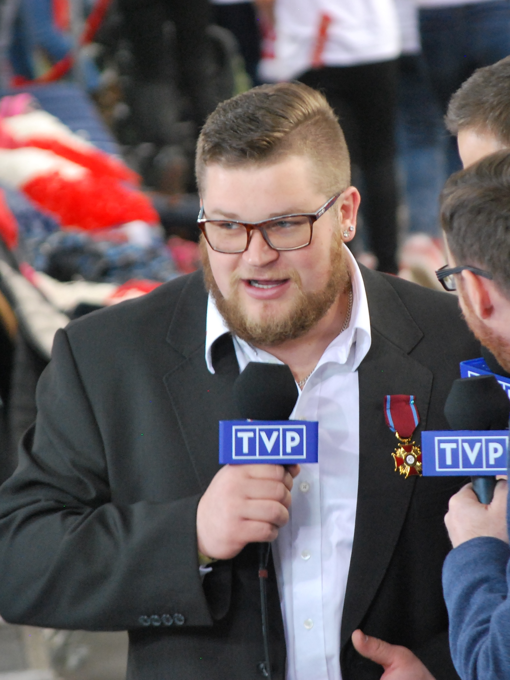 Pedros Cup 2015 Łódź, Paweł Fajdek, hammer thrower from Poland